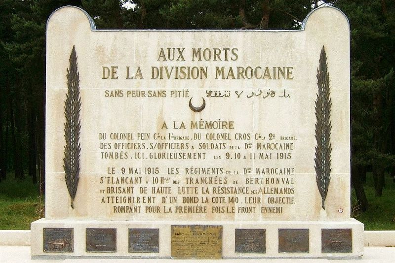 The Moroccan Division Memorial, opposite the Canadian National Vimy Memorial, 8 kilometres northeast of Arras.